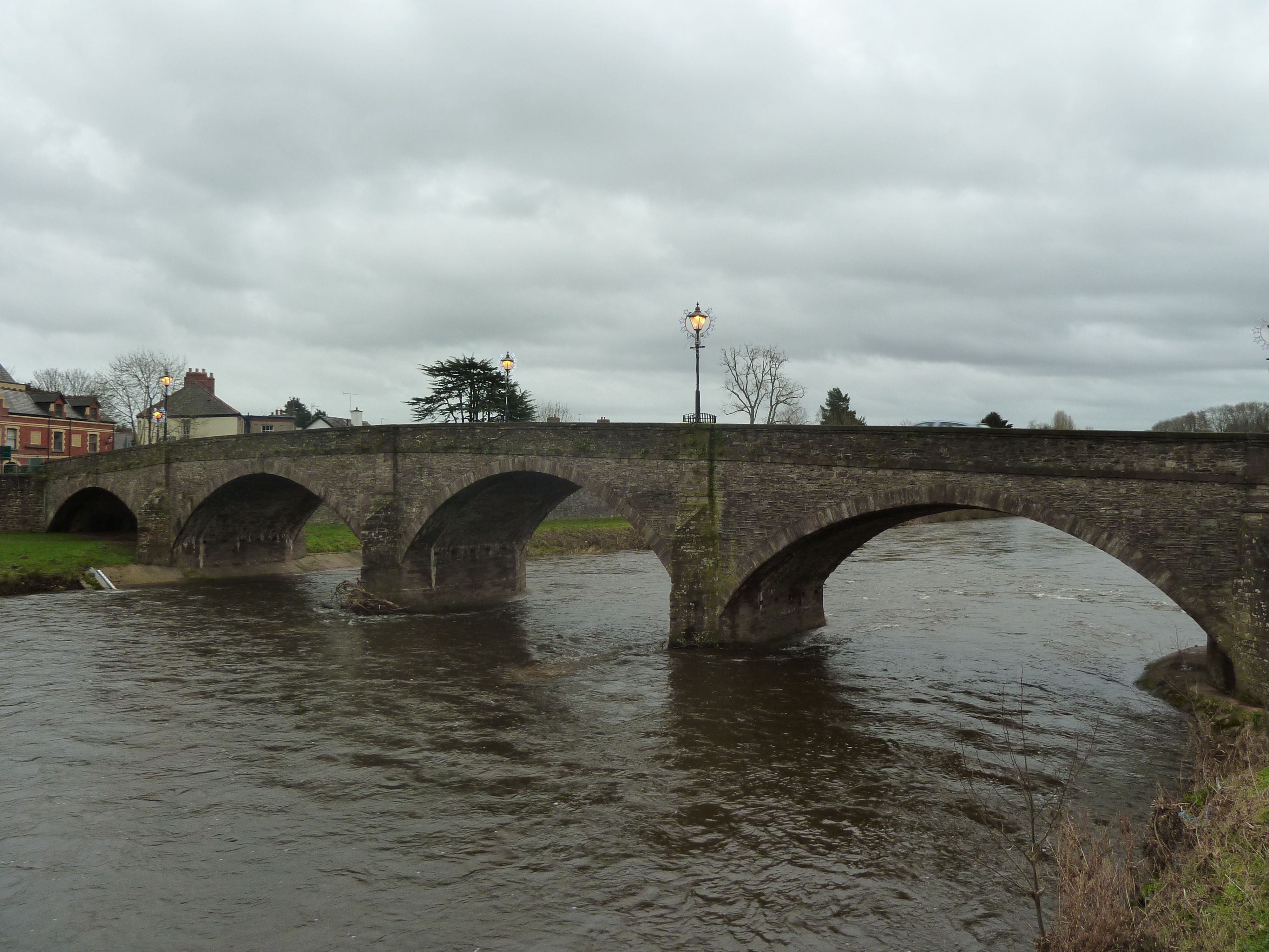 Castle House, Usk castle.